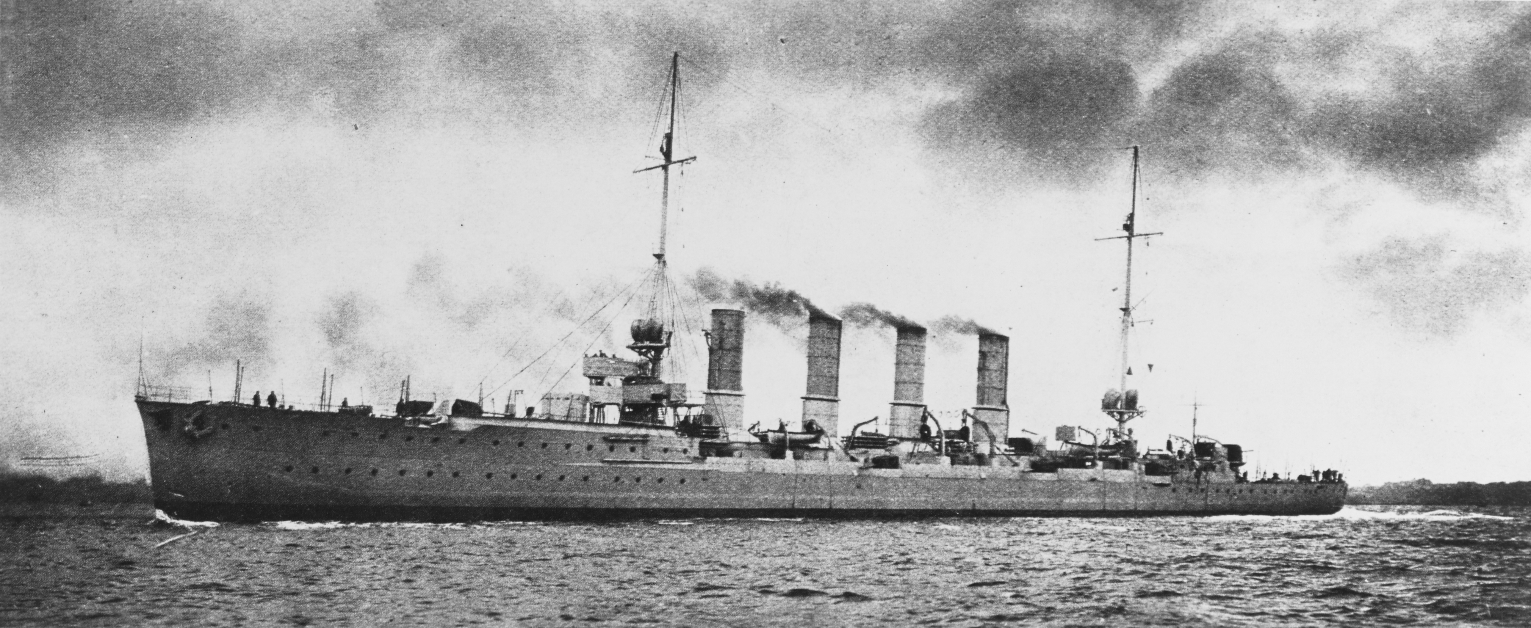 The German light cruiser SMS Rostock. She was commissioned in 1914 and scuttled at the Battle of Jutland on 1 June 1916. From Illustrated London News, 10 June 1916, page 739. This version cropped from file NH 43041.tiff